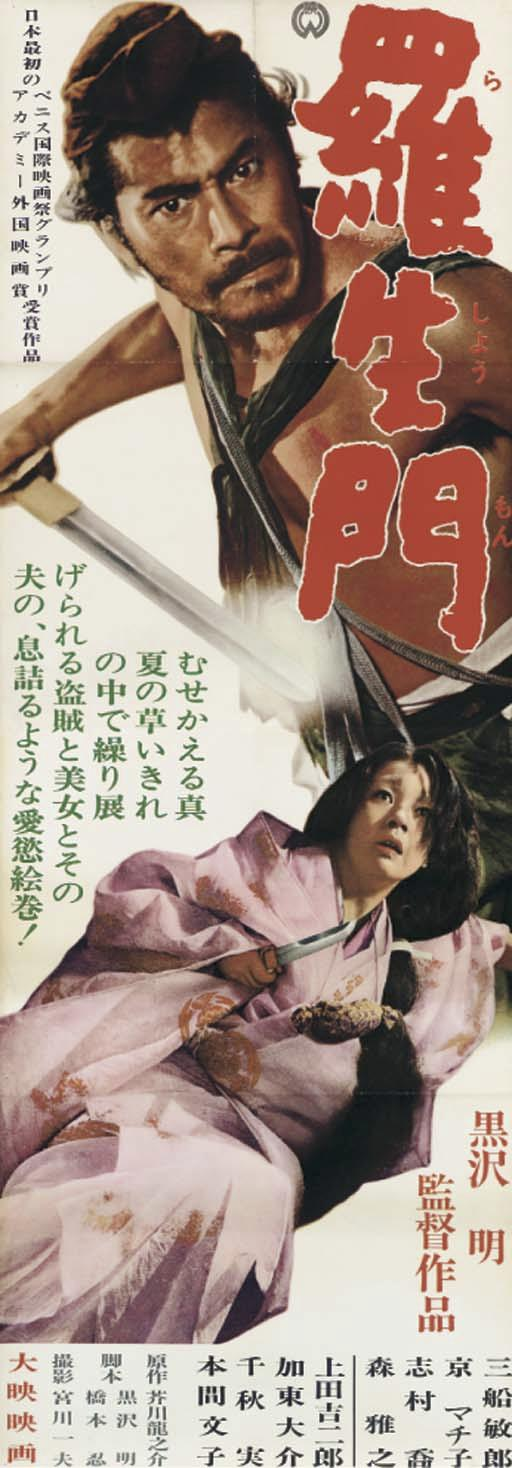 Rashomon (1950) Japanese re-release movie poster (58"x20") from 1962 showing Toshirō Mifune (up) and and Machiko Kyō (down)